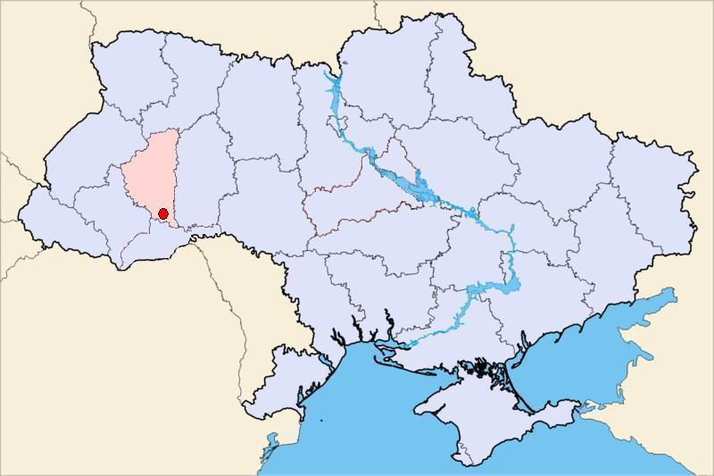 Created from my own work.